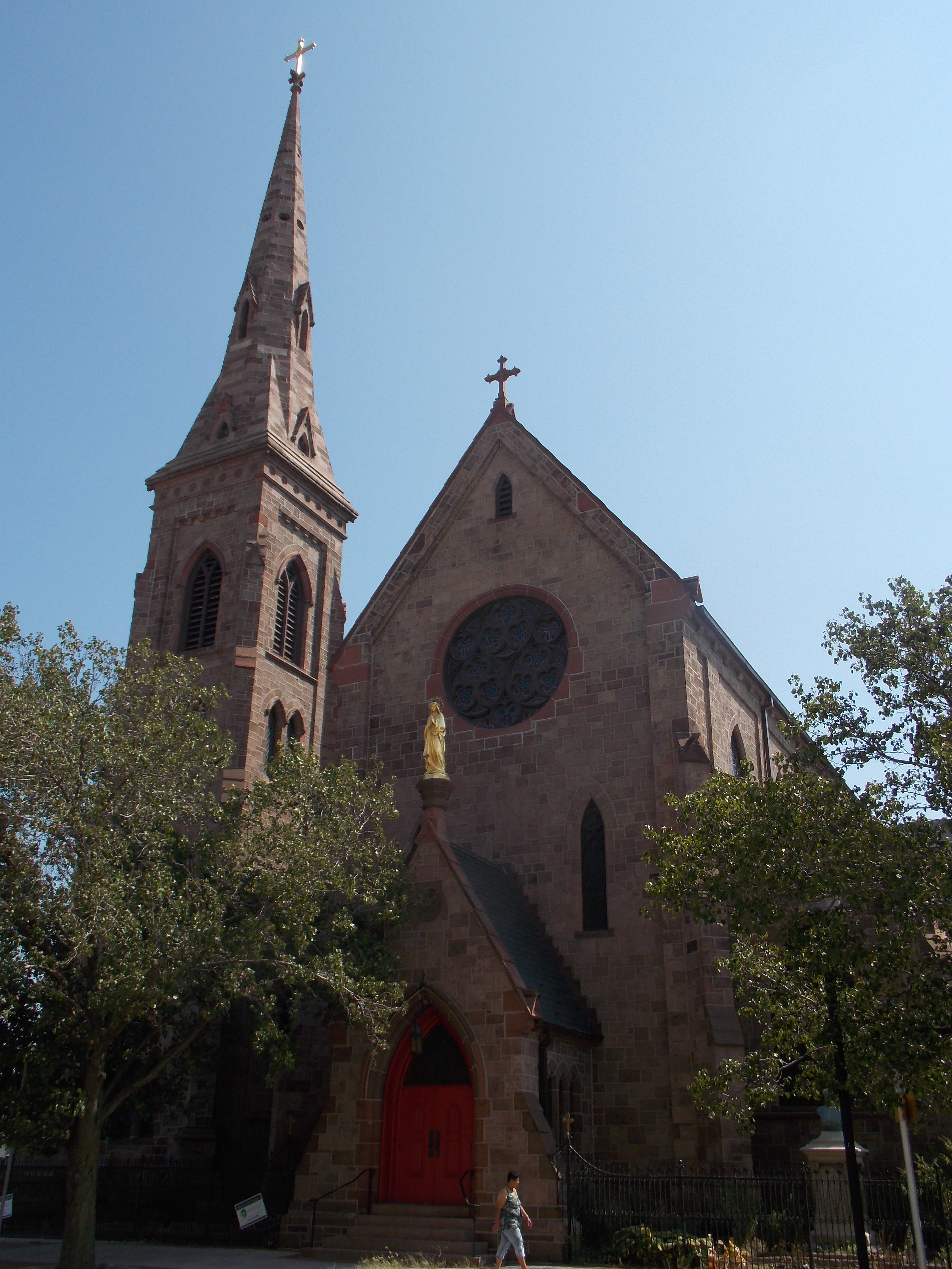 The Cathedral of the Immaculate Conception in downtown Camden, New Jersey is listed on the National Register of Historic Places.